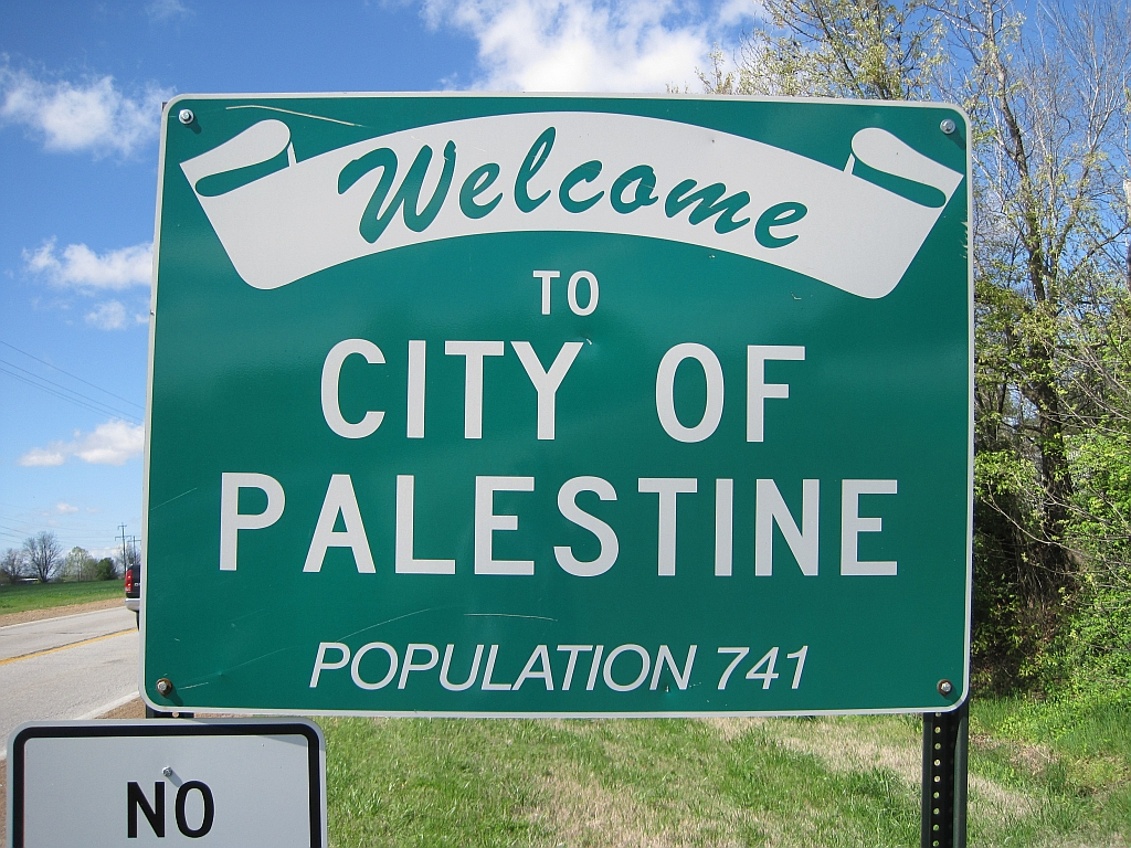 Palestine, Arkansas Welcome to Palestine, AR